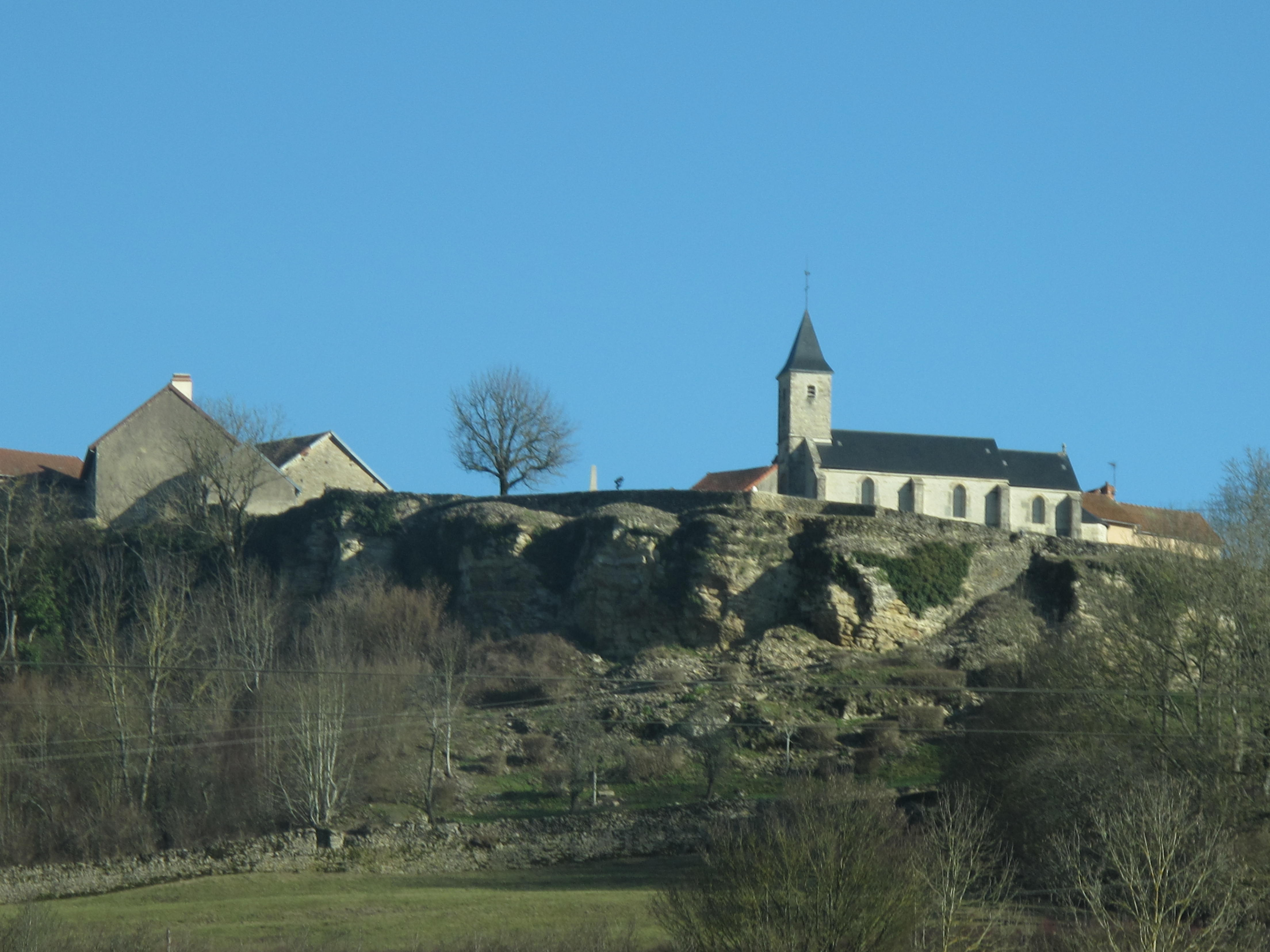 The village and the church of Bouhey seen from the French highway autoroute A6 (Côte-d'Or, France).